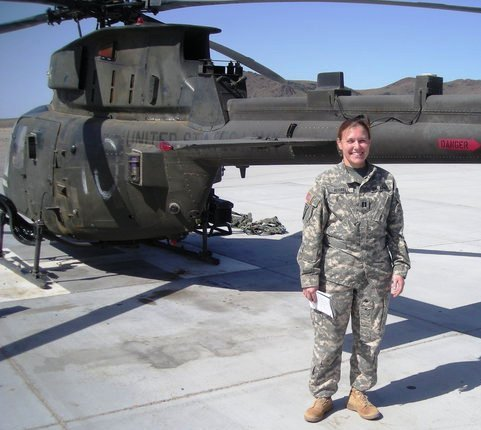 U.S. Army Capt. Amy Ferrell, operations officer with the 1st Battalion, 337th Aviation Regiment, 166th Aviation Brigade, First Army Division West, during pre-flight inspections as she prepares for an evening mission April 1, 2010, at the National Training Center in Fort Irwin, Calif.